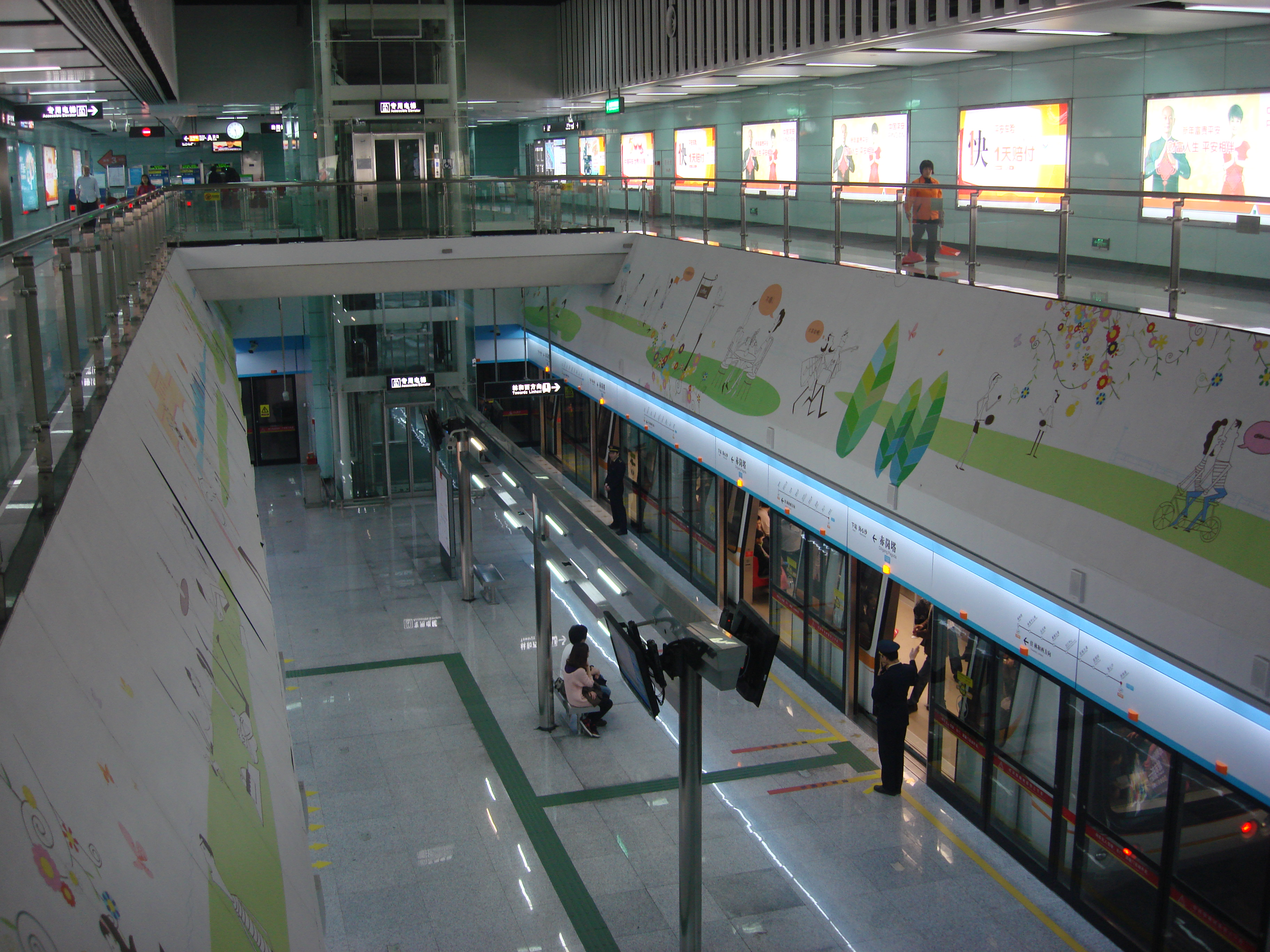 Chigang Pagoda Station of APM Line.